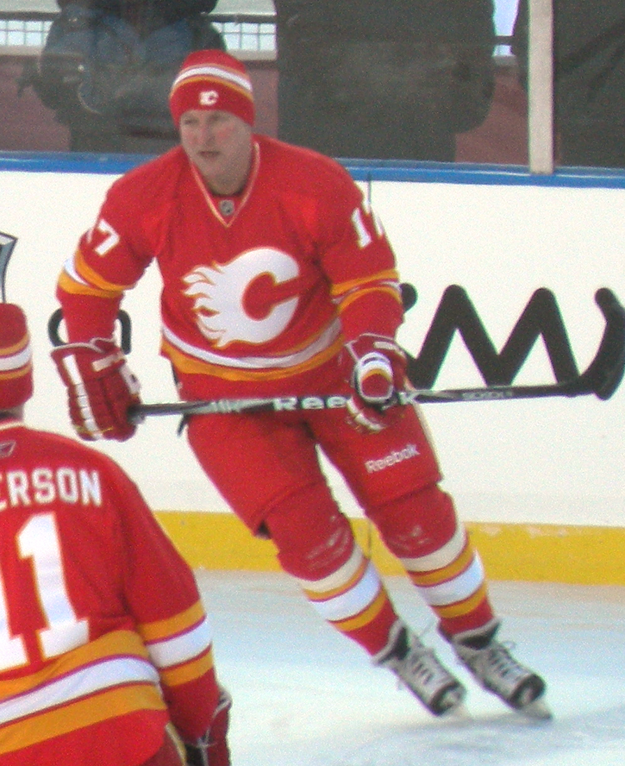 Former NHL player Jiri Hrdina during the alumni game at the 2011 Heritage Classic in Calgary.